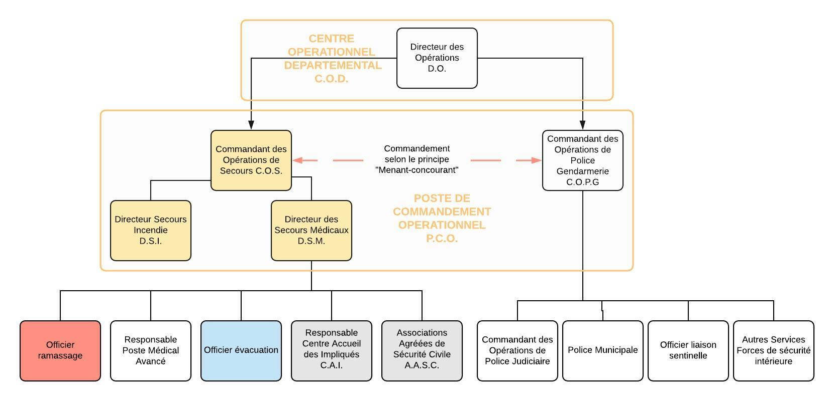 Diagram of the French ORSEC chain of command Numerous victims